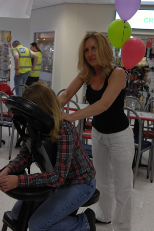 Mrs. Joella Kinser helps release muscle tensions for the general public at the massage station, during the "Spouse Appreciation Day" on RAF Lakenheath, England May 15. The day was designed to pamper military spouses and educate them on services available to them.